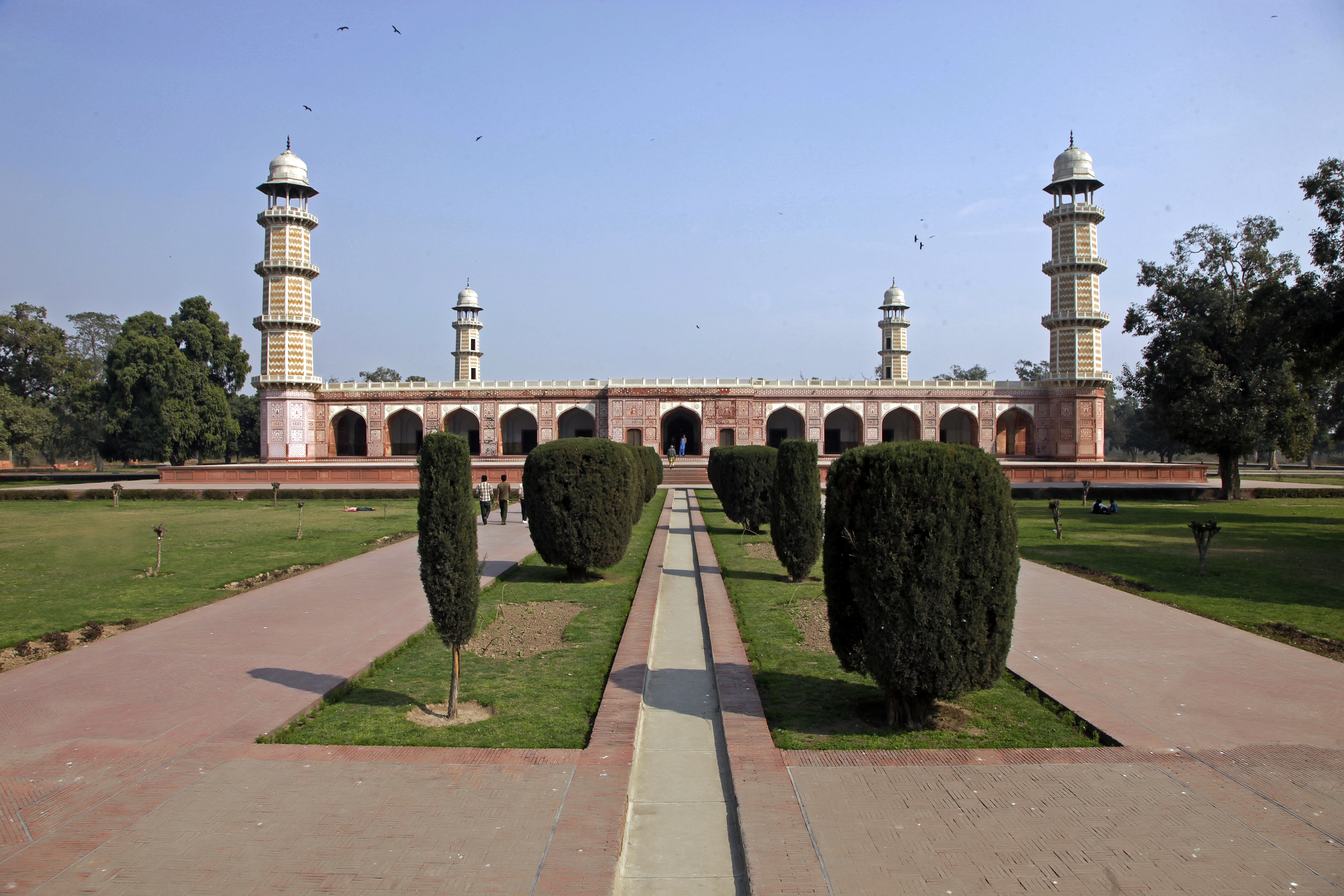 Jahangir’s Tomb and compound This is a photo of a monument in Pakistan identified as the PB-64